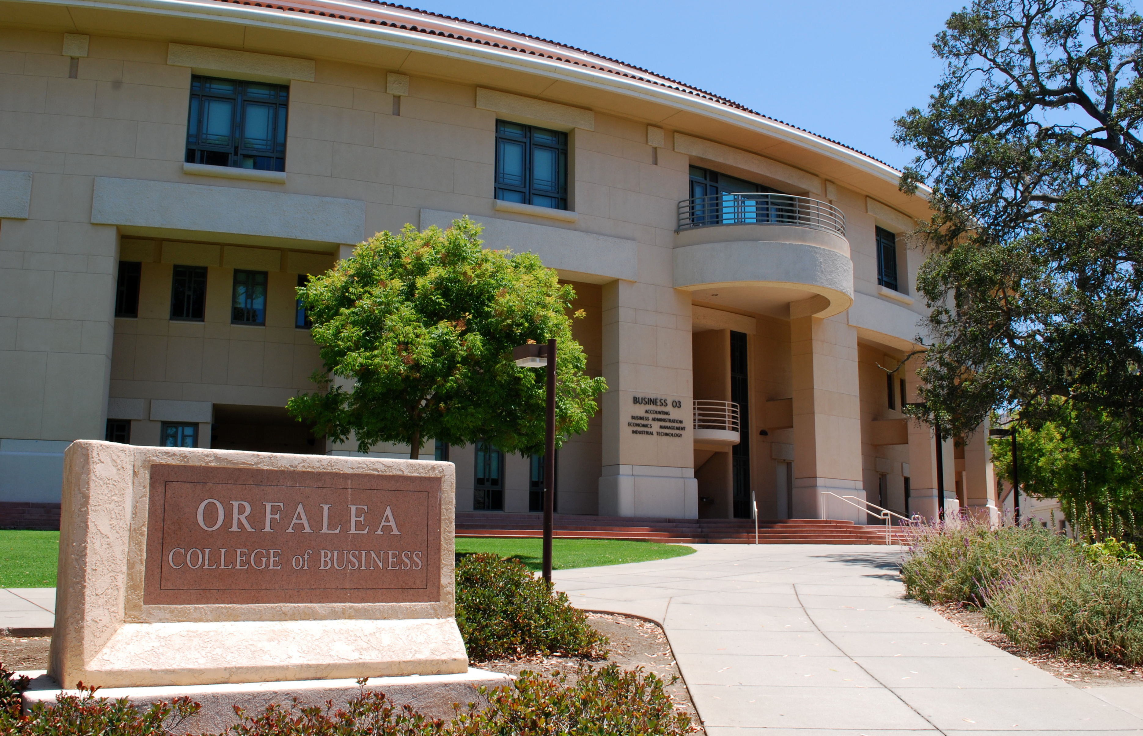 The College of Business building at Cal Poly, San Luis Obispo, CA.